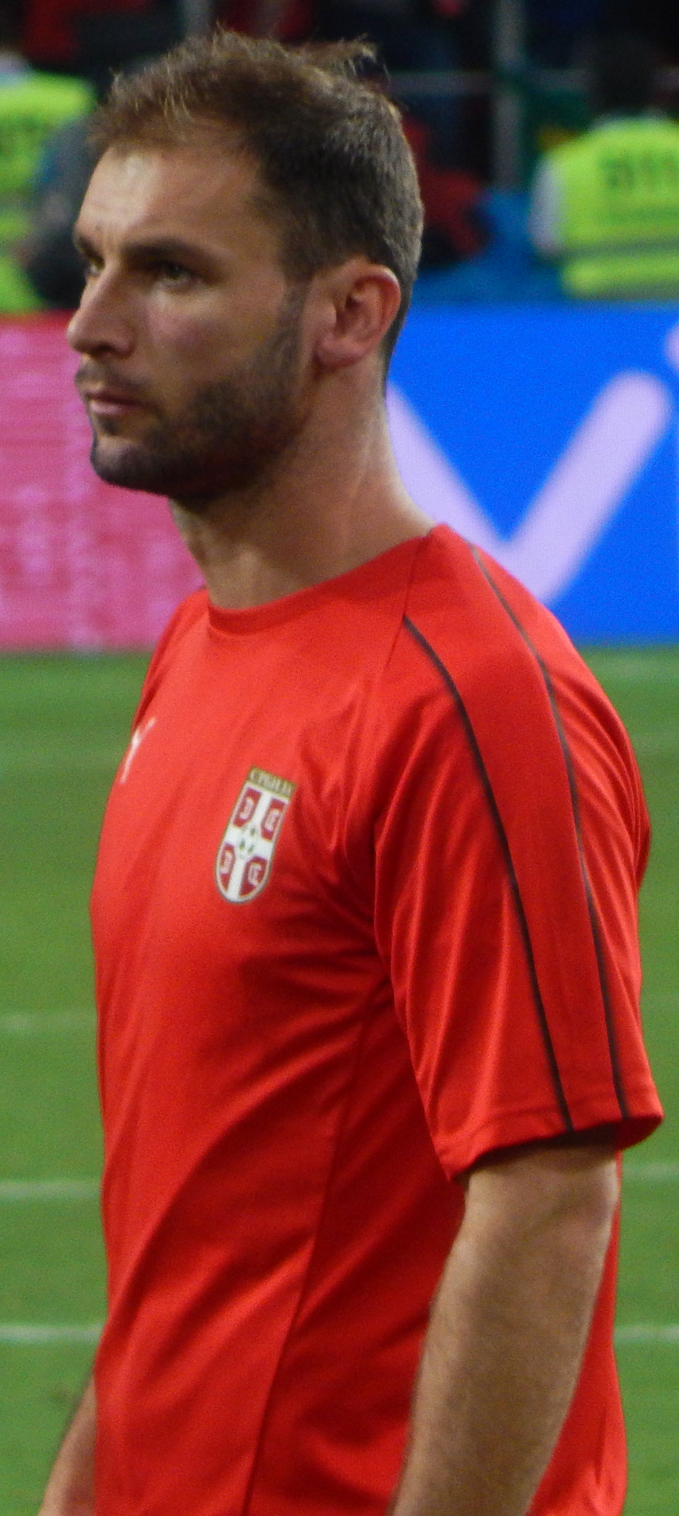 FIFA World Cup 2018, Group E, Serbia vs. Brazil